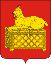 Bodaibo (Irkutsk oblast), coat of arms